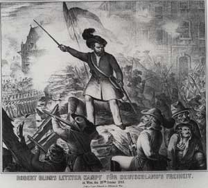 Robert Blum as fighter in Wien